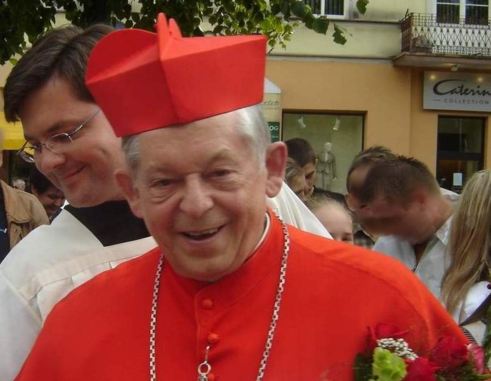 Józef Glemp, cardinal of Roman Catholic Church, current primate of Poland